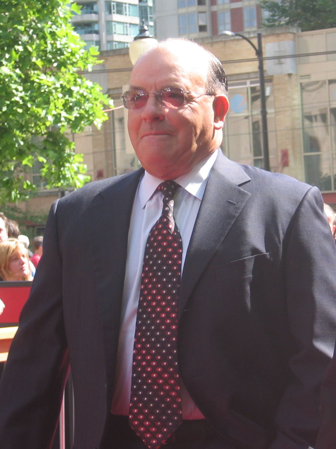 Scotty Bowman at the 2006 NHL Awards. Vancouver, BC, Canada.